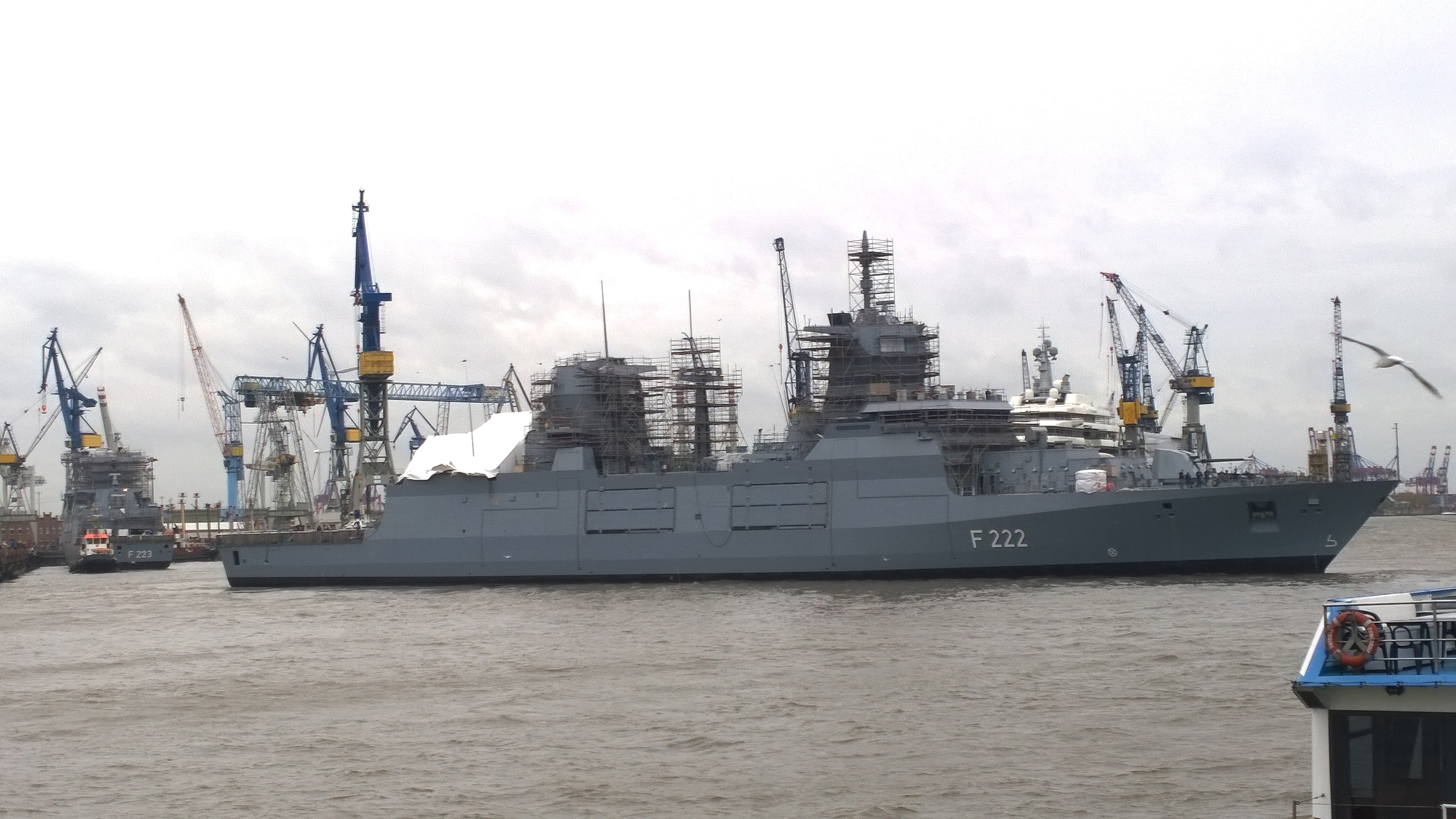 The frigate F222 Baden-Württemberg will be dragged into the dock 17 of the B & V shipyard